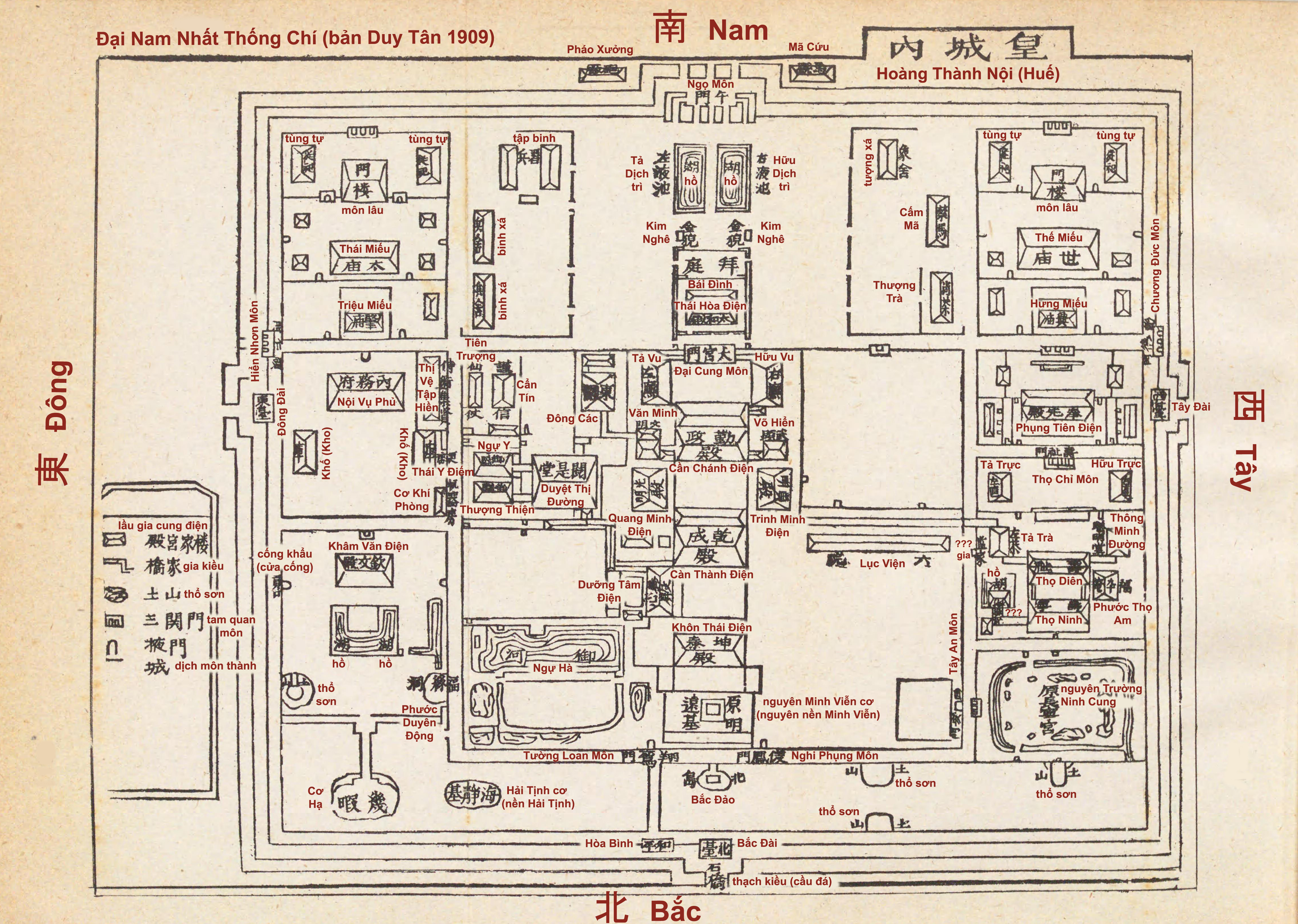 Map of Imperial City of Hue circa 1909. This map is printed in Đại Nam Nhất Thống Chí the second version (the 3rd year of Duy Tan reign (1909) version). This is the South-up orientation map (a.k.a "the upsidedown maps") . The South-up direction is the original orientation of this map.